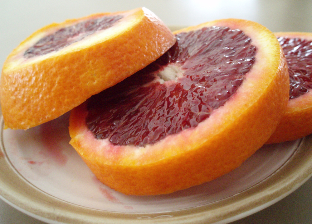 Slices of Blood Oranges